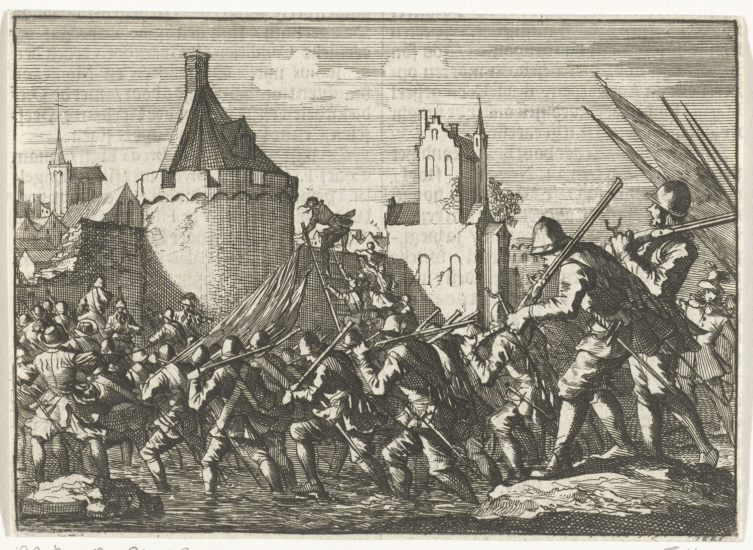 Sieg of Goch